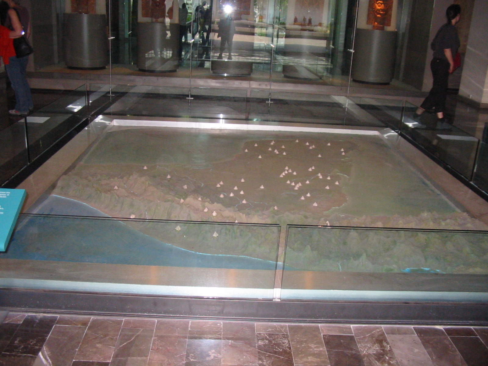 Relief map of major Maya settlements at the National Museum of Anthropology in Mexico City